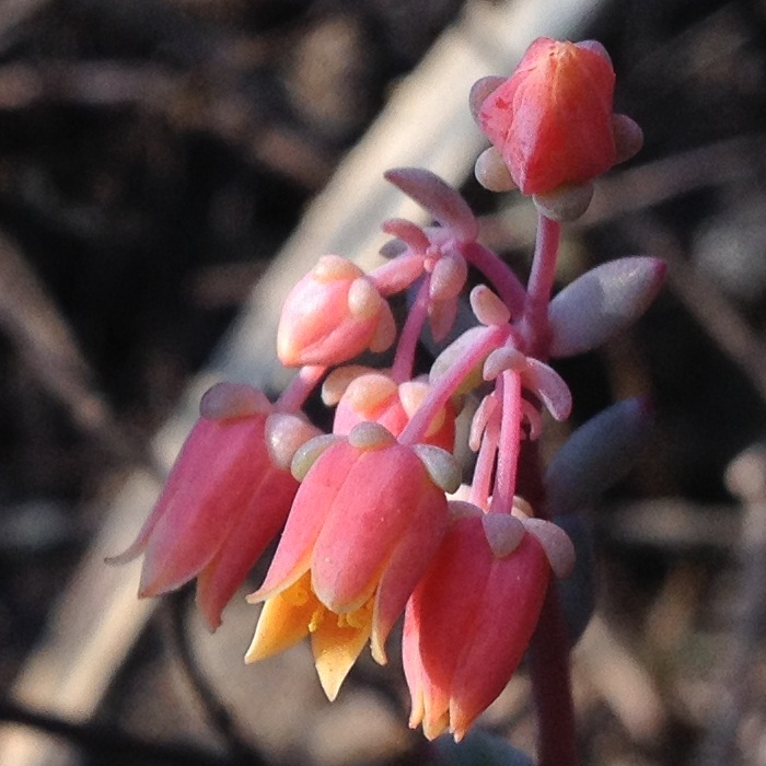 Echeveria amoena is a plant in the stonecrop family Crassulaceae. It is native to the semiarid Oriental Basin in east-central Mexico. This photo was taken on the inner, shady slopes of Atexcac maar in Guadalupe Victoria, Puebla.